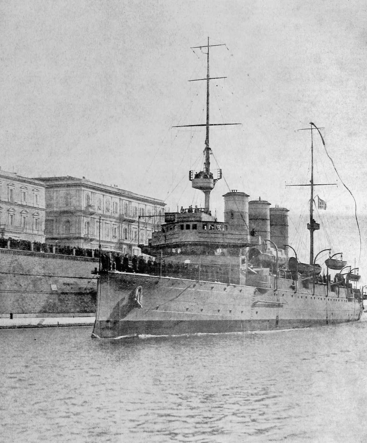 "RN Libia" comes back to Taranto Harbour. From "L'Illustrazione Italiana", 18 March 1923.